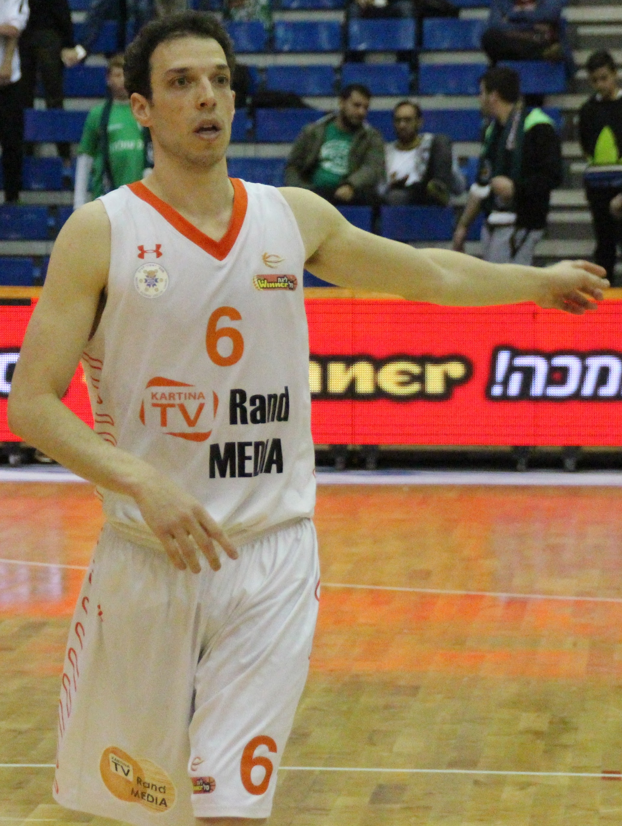 Nitzan Hanochi during Maccabi Rishon Lezion game against Maccabi Haifa, 05.03.2017.